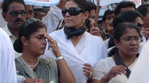 Rosy Senanayake in a political rally in Sri Lanka.